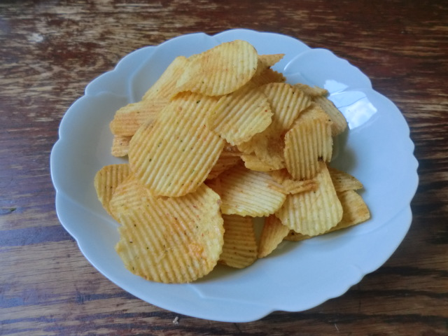 "Pizza Potato"(Japanese snack food)'s package.